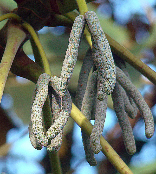 The floral spike, typical of Cecropia or Guarumo trees. In context at